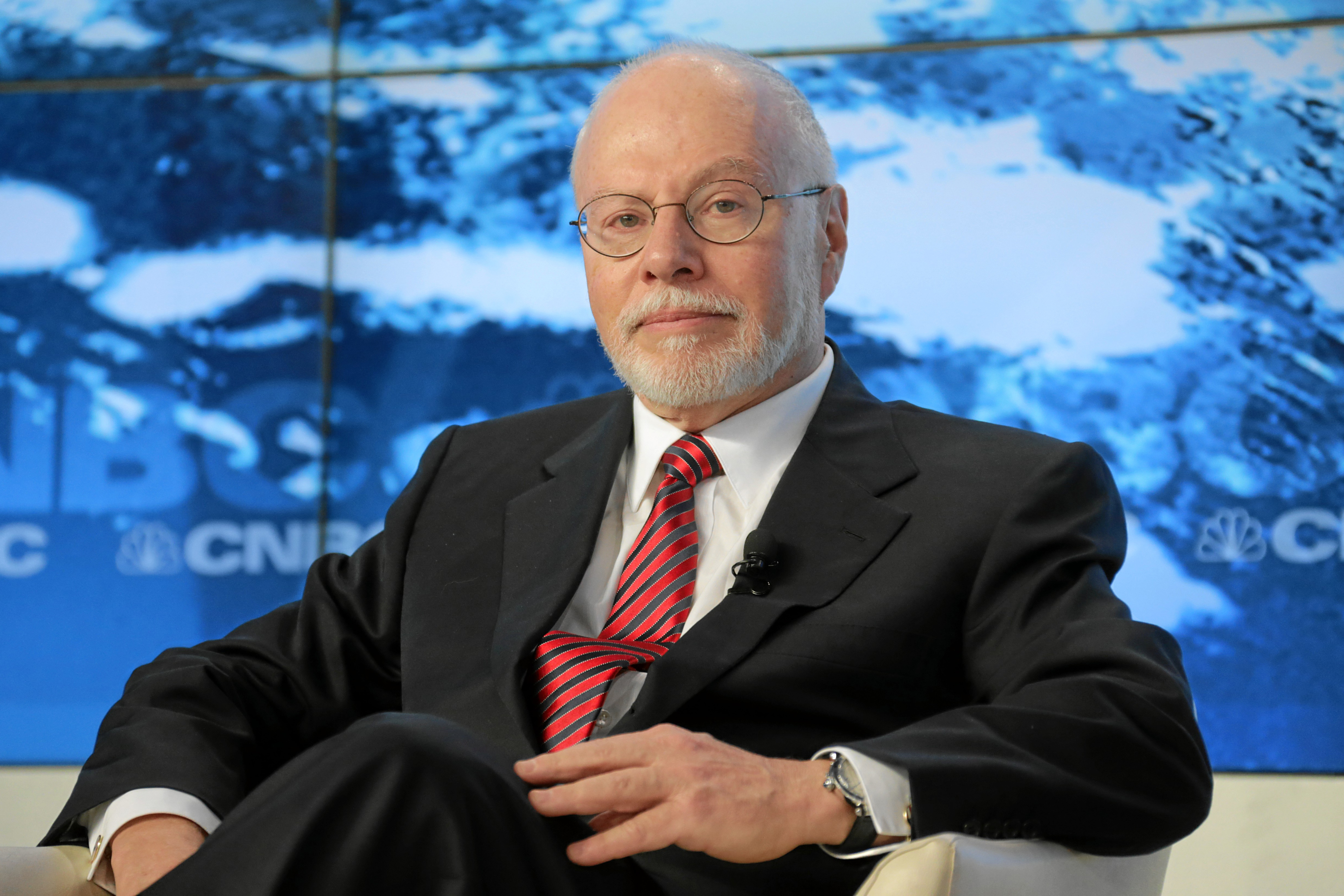 DAVOS/SWITZERLAND, 23JAN13 - Paul Singer, Principal, Elliott Management, USA is seen during the session 'The Global Financial Context - Reinforcing Critical Systems' at the Annual Meeting 2013 of the World Economic Forum in Davos, Switzerland, January 23, 2013. Copyright by World Economic Forum. Remy Steinegger